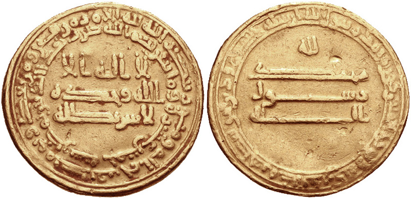 Coin of the Abbasid Caliph al-Ma'mun.